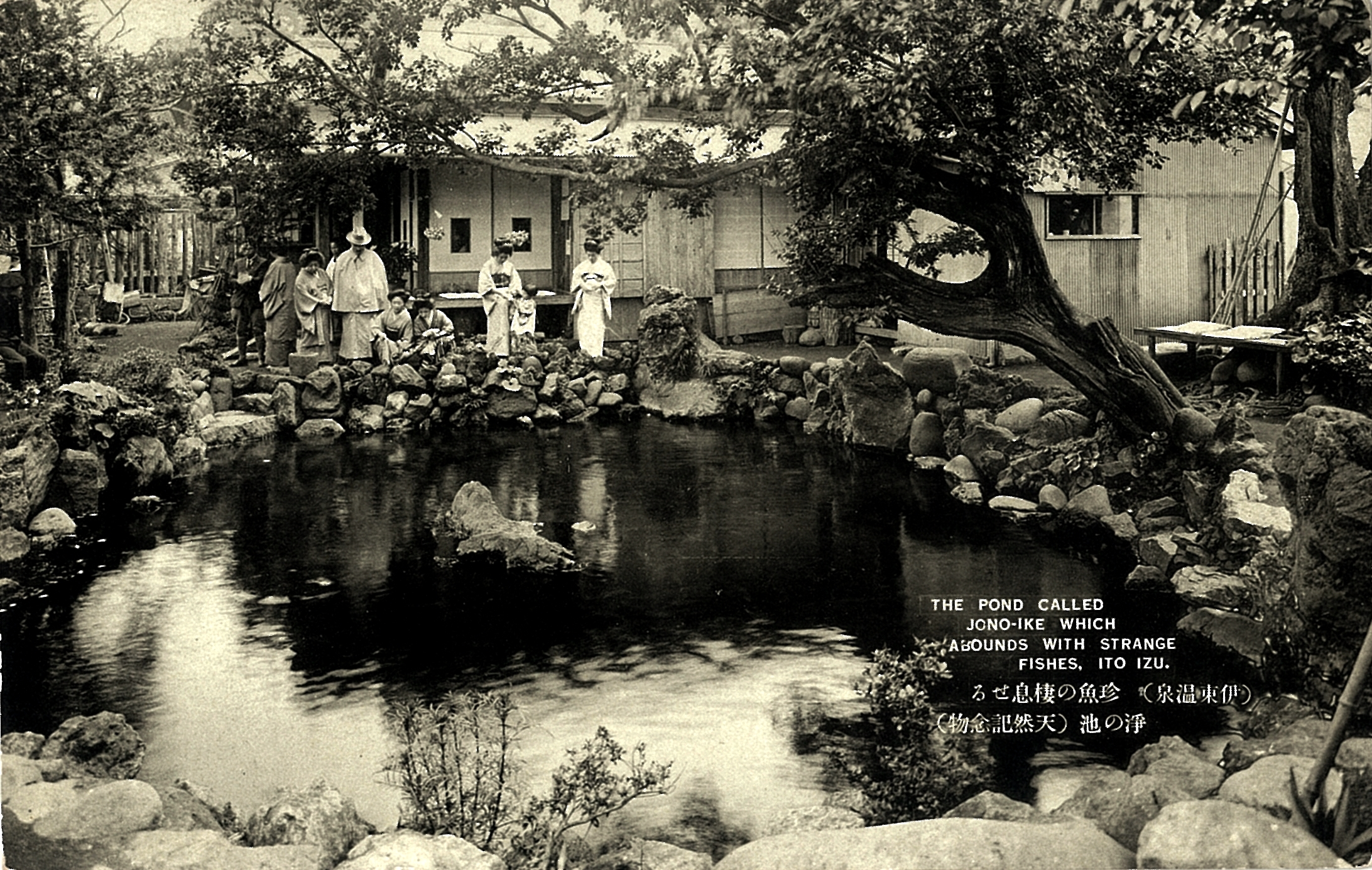 Jono-ike pond postcard.1920s